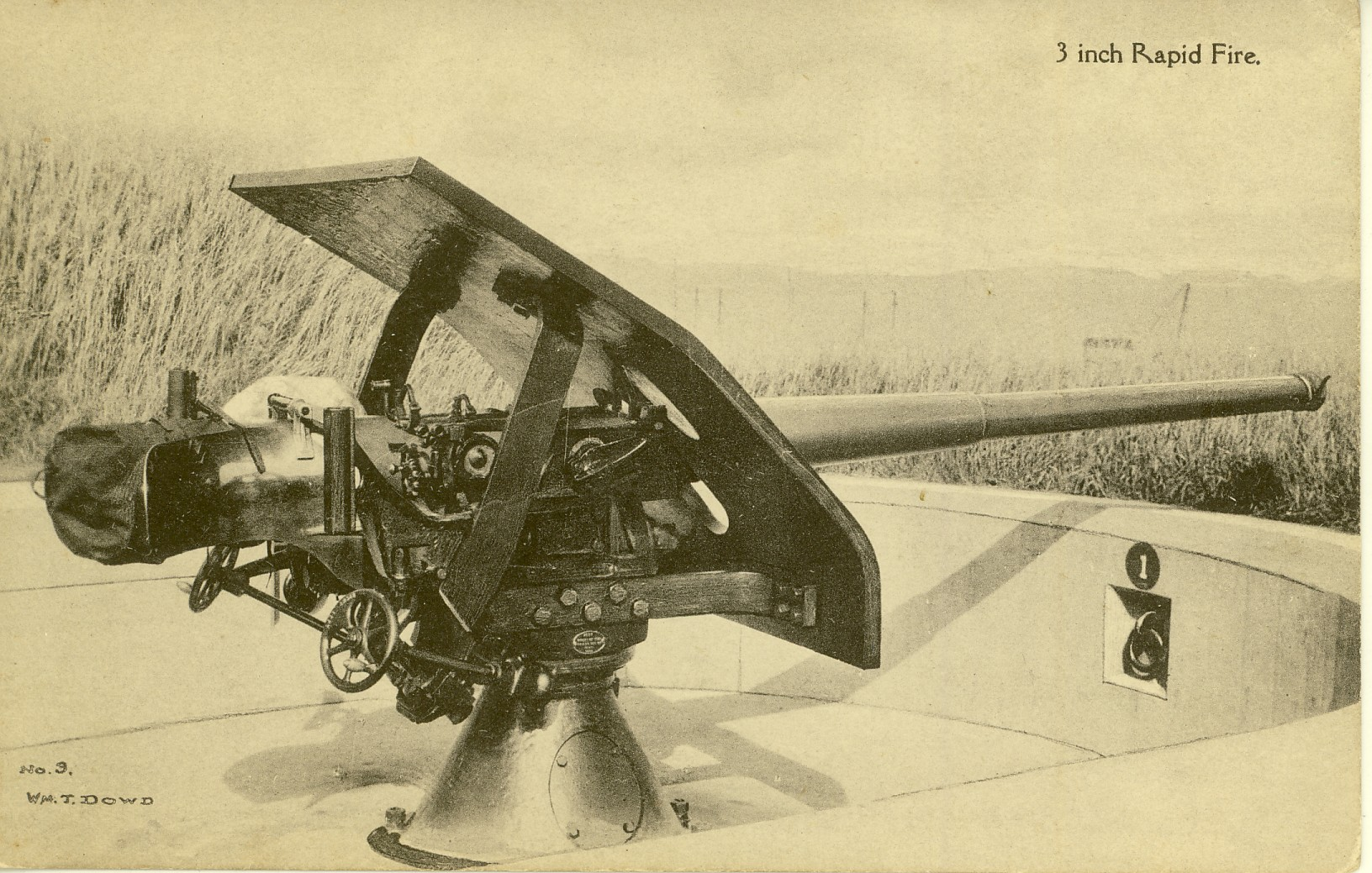 Local Accession Number: PC 182 Description: Postcard photograph of a 3 in. rapid fire artillery at Fort Greble during World War I. This is an M1903 3-inch gun; Fort Greble did not have this type of gun, but the nearby Fort Getty did. Photographer: Unknown Source: Donated by Jean Brannum Nichols Size: 3x5 Medium: Print, Black and White Date: c. 1917- 1918